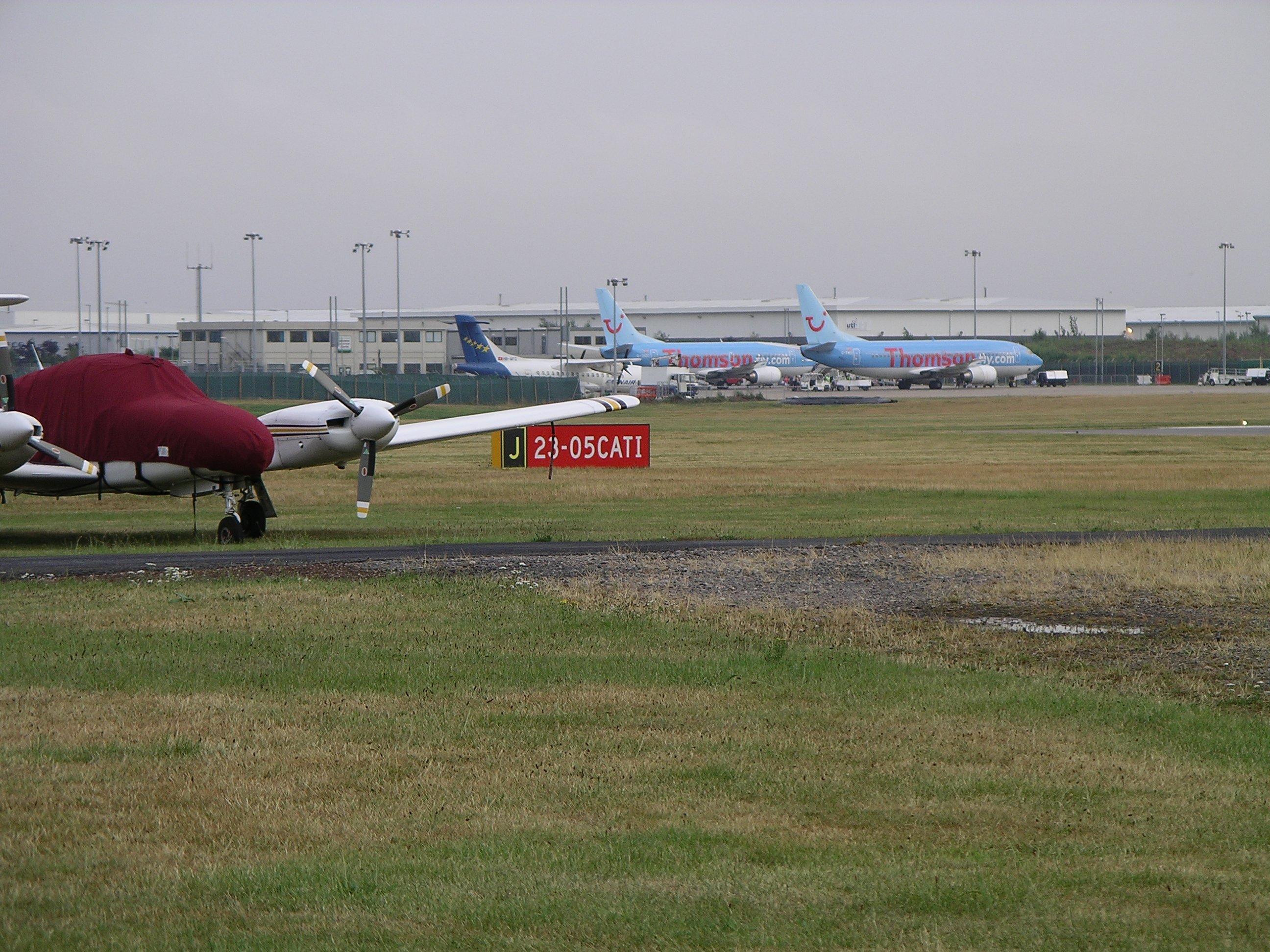 Photo taken by me one evening in July 2006.